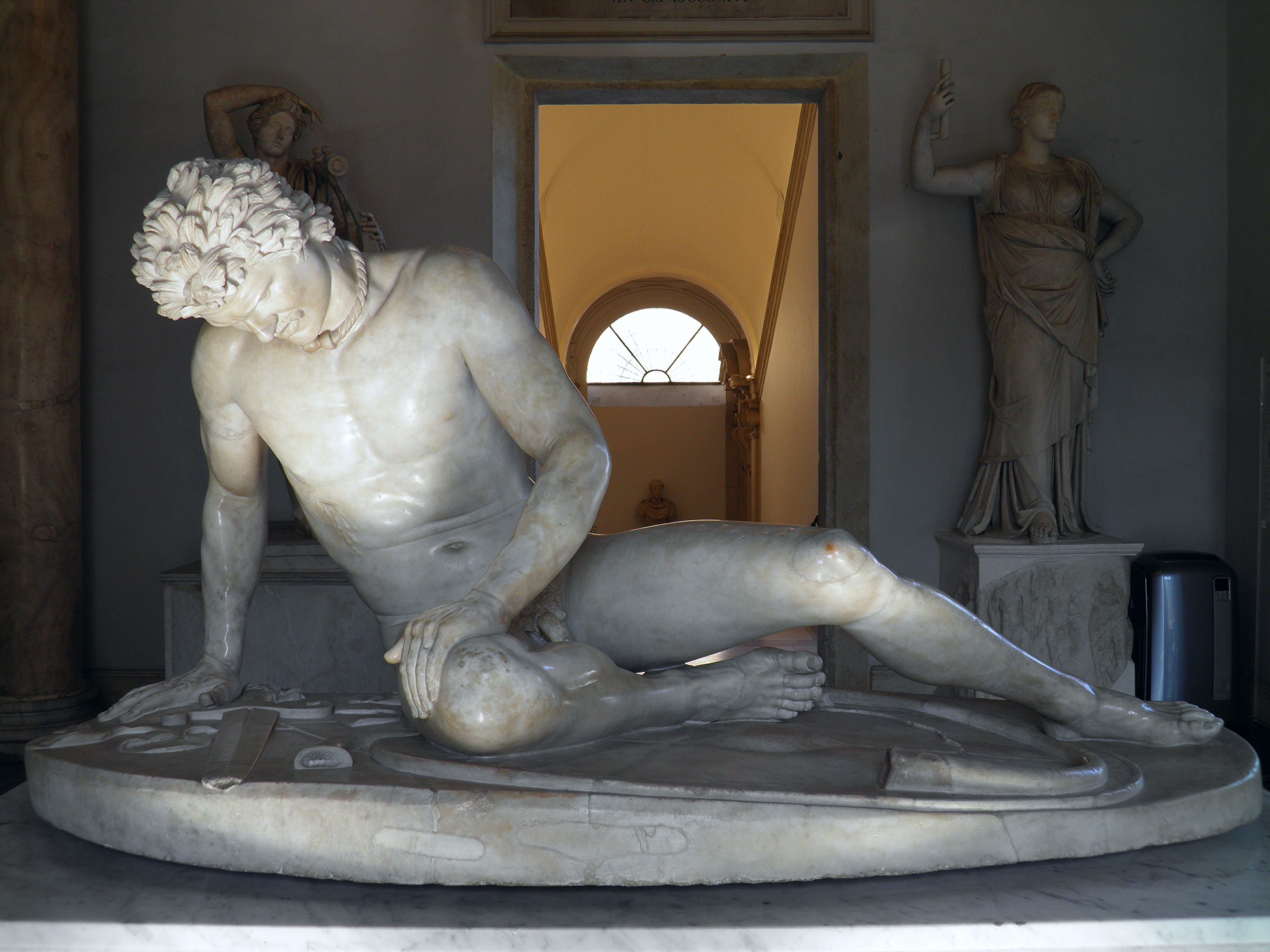 This statue is from Pergamon, the royal capital of the Attalids on the coast of present-day Turkey. In 278 BC, migrating Celtic tribes from Gaul crossed the Hellespont and settled in Galatia to the east. In a series of campaigns fought some fifty years later, they were defeated by Attalus I in defense of the Greek cities of the region. The statue likely is a second-century AD Roman copy of a third-century BC Hellenistic bronze commemorating that victory. It has been associated with the sculptor Epigonus, to whom Pliny attributes the "Trumpeter" (a curved Celtic trumpet rests at the feet of the dying warrior) and whose name is inscribed on the base of one of the great victory monuments erected on the acropolis at Pergamon around 220 BC.